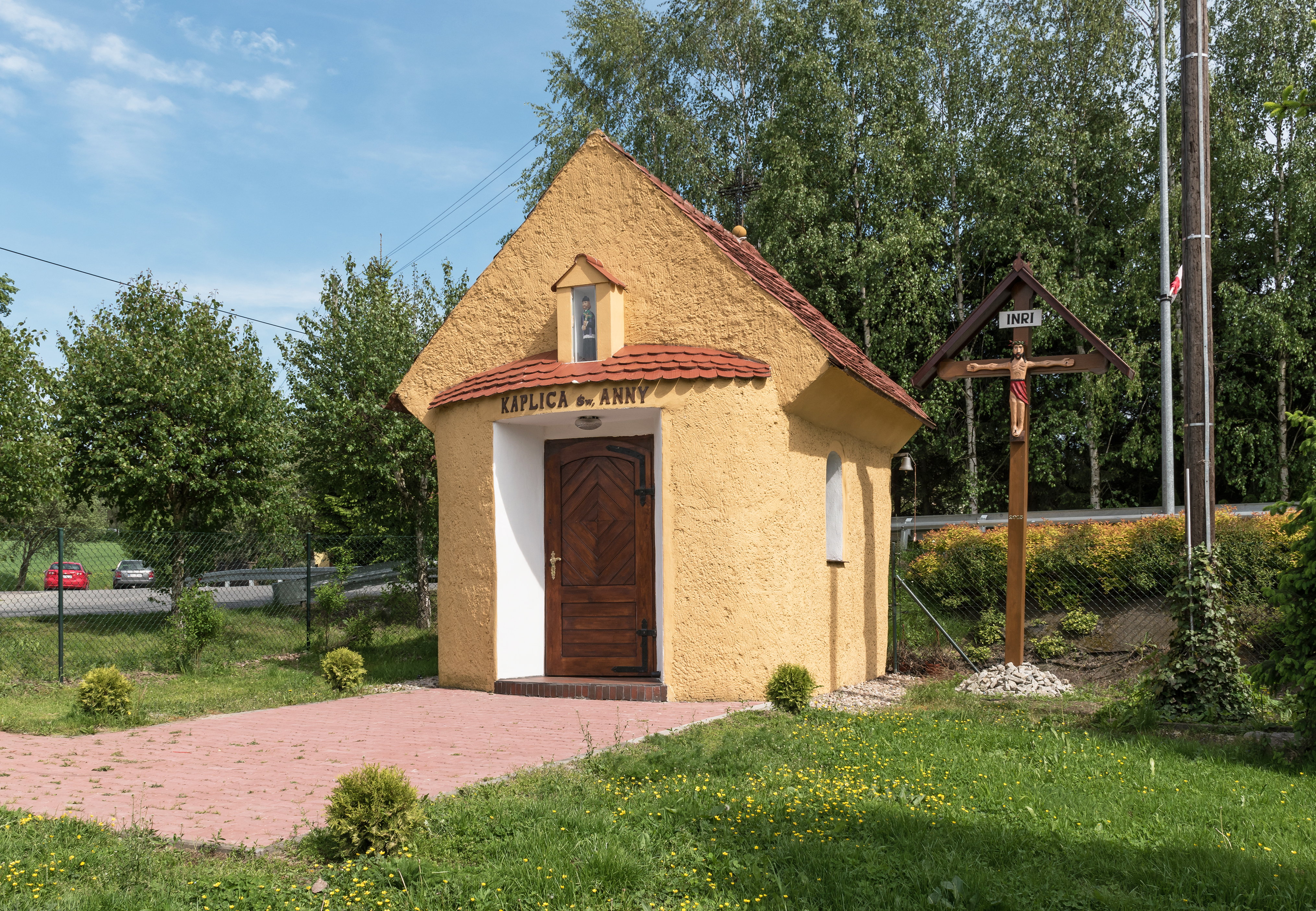 St. Anne chapel in Ławica